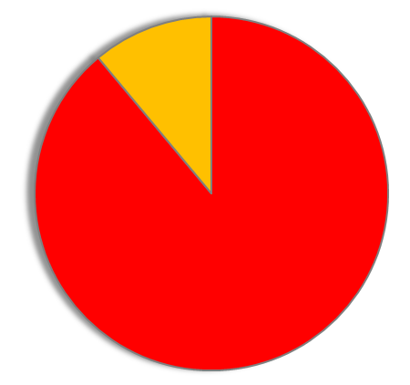 Expressed as a pie chart in the Shimane gubernatorial election in 2011, the number of votes for each candidate. explanatory notes ■ - Zenbe Mizoguchi ■ - Shinichi Mukose